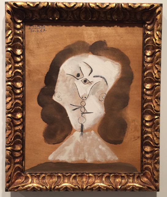 Pablo Picasso, Mousquetaire, Tête, 1967 at Museum of the University of Navarra